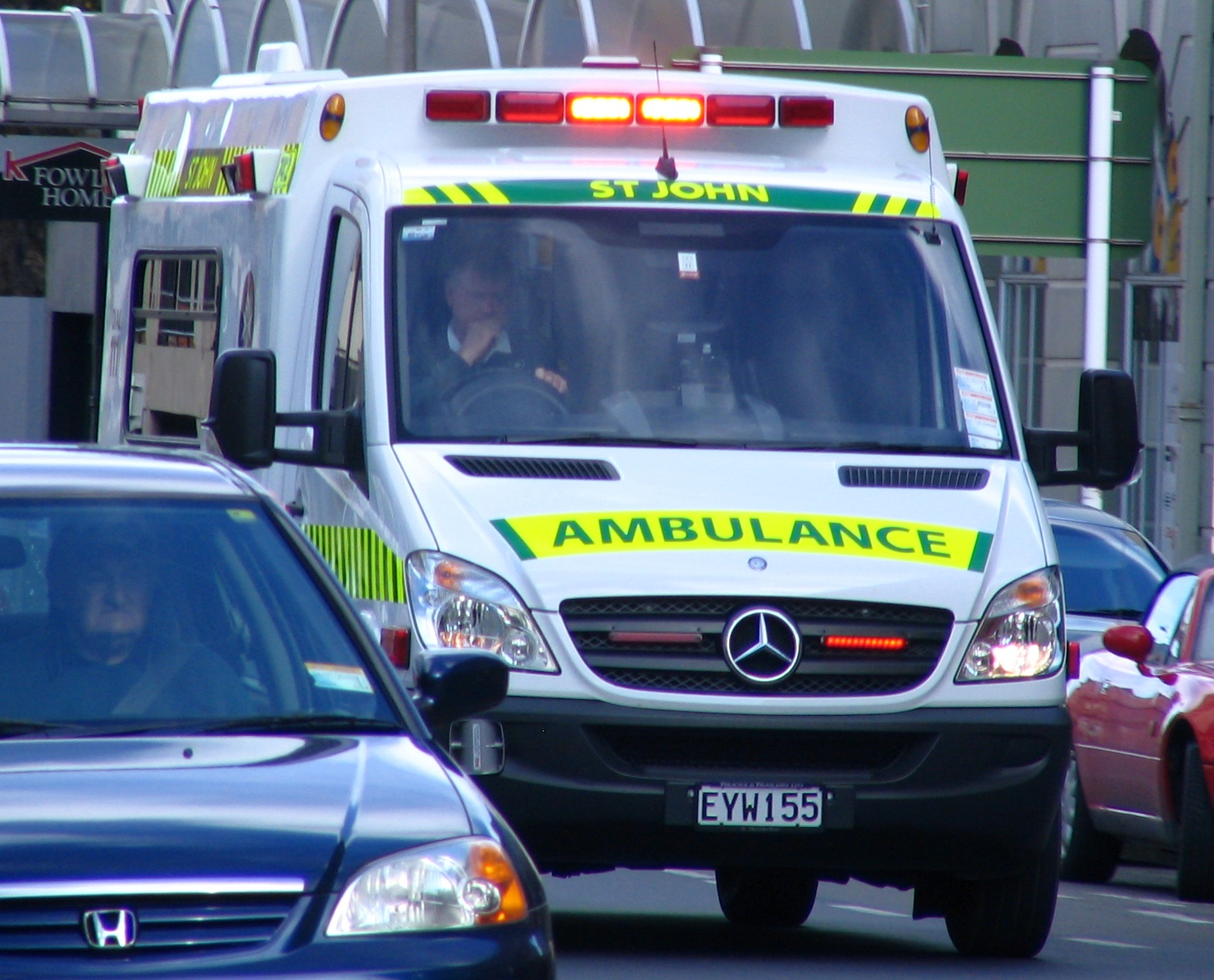 St John Mercedes ambulance travelling at speed with lights and siren near Cumberland and Stuart Streets, Dunedin, New Zealand.